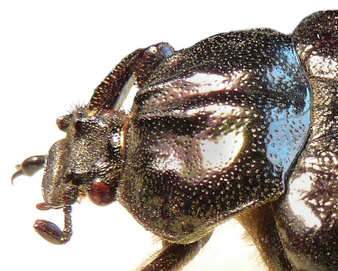 caput and pronotum of male Osmoderma eremita